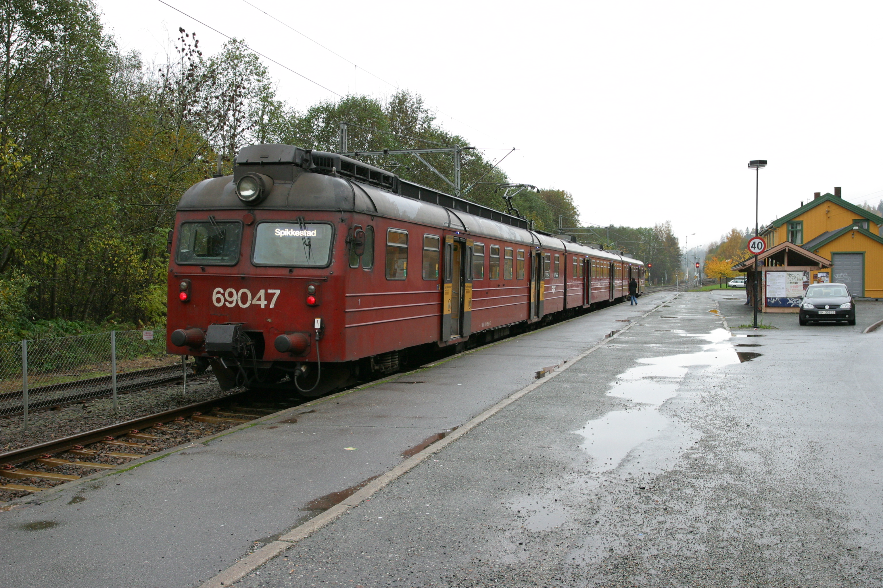 Train 69047 at Heggedal railway station (Norway)